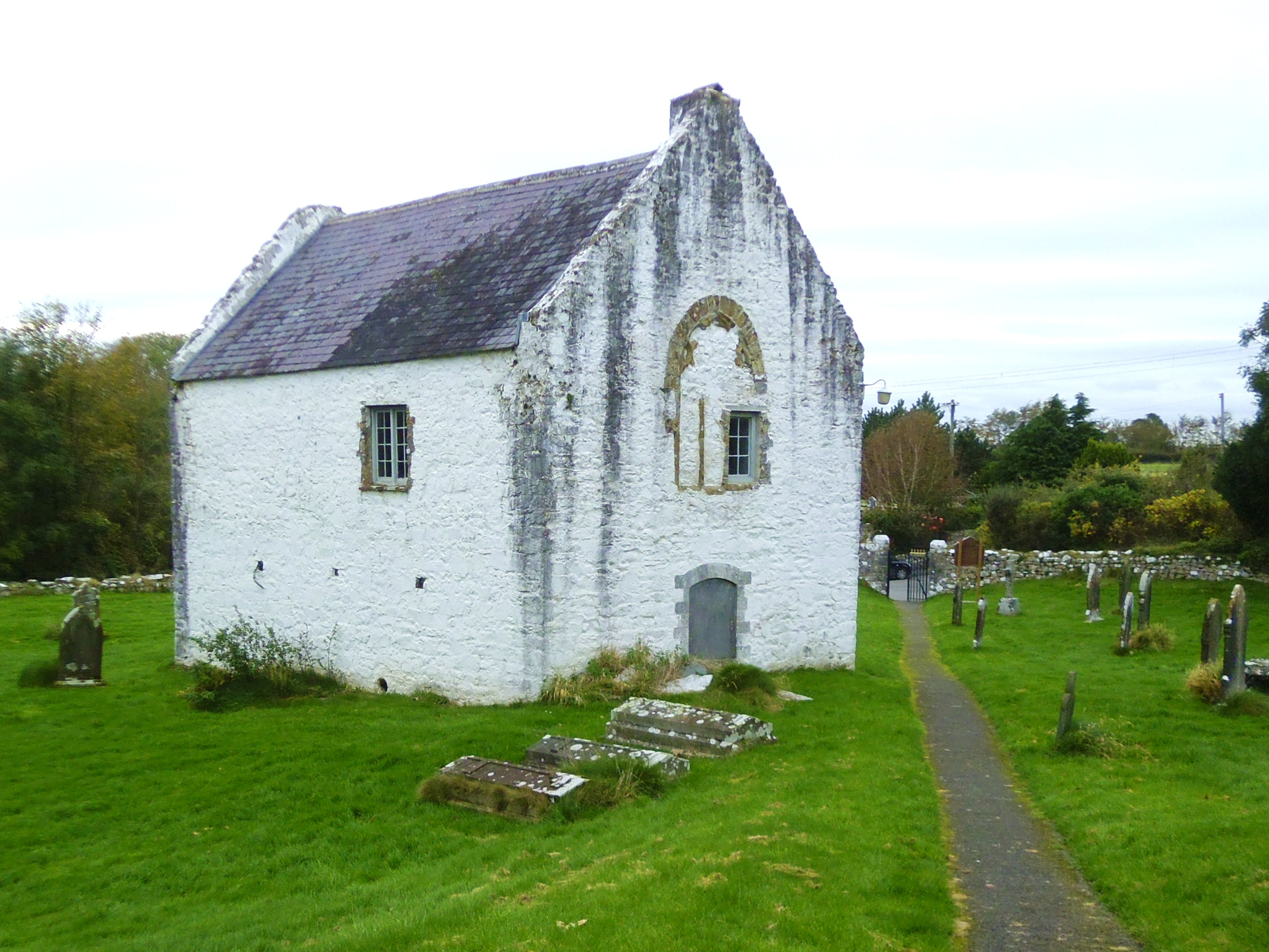 Mortuary chapel, Carew Cheriton